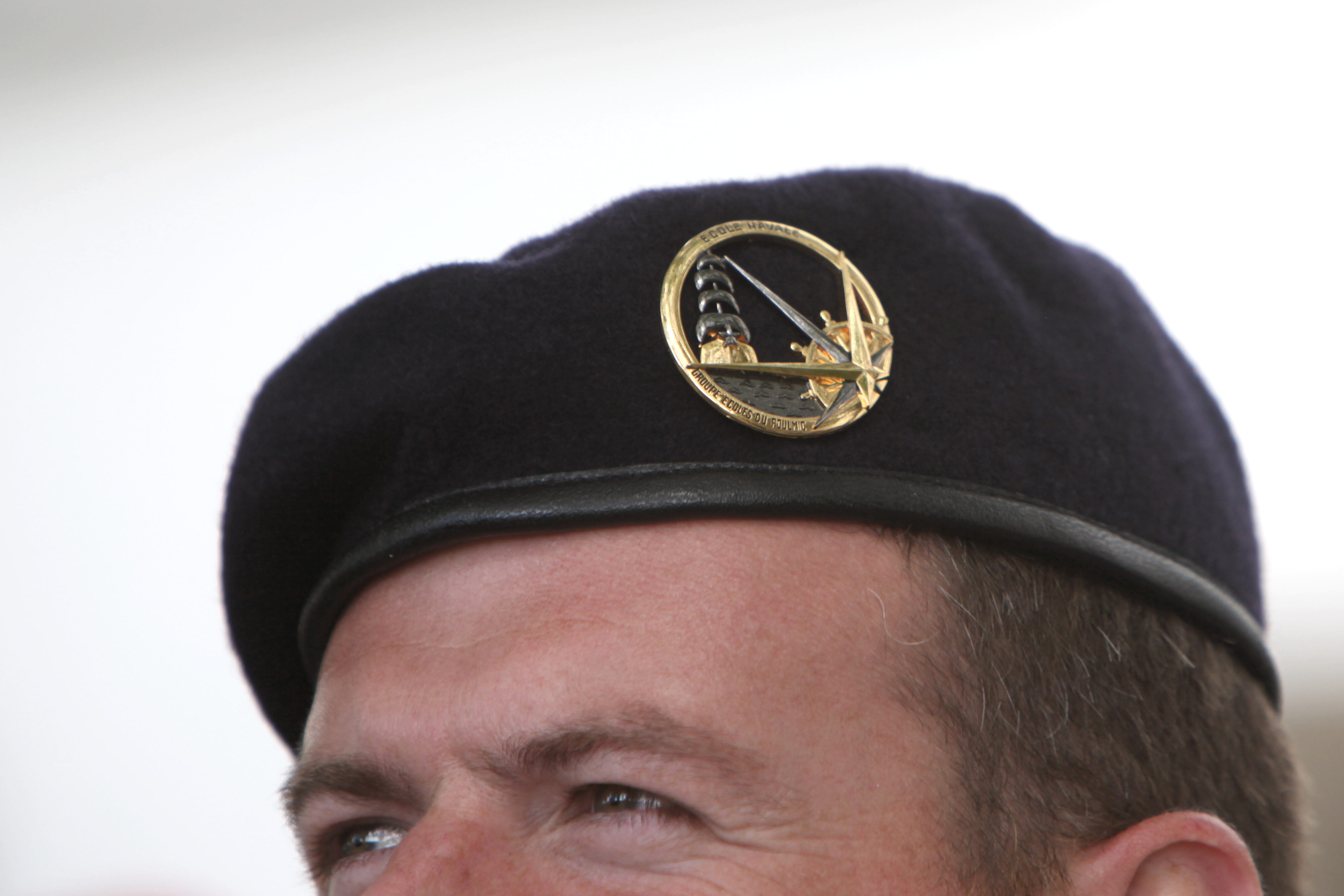 Beret of the French Naval Academy